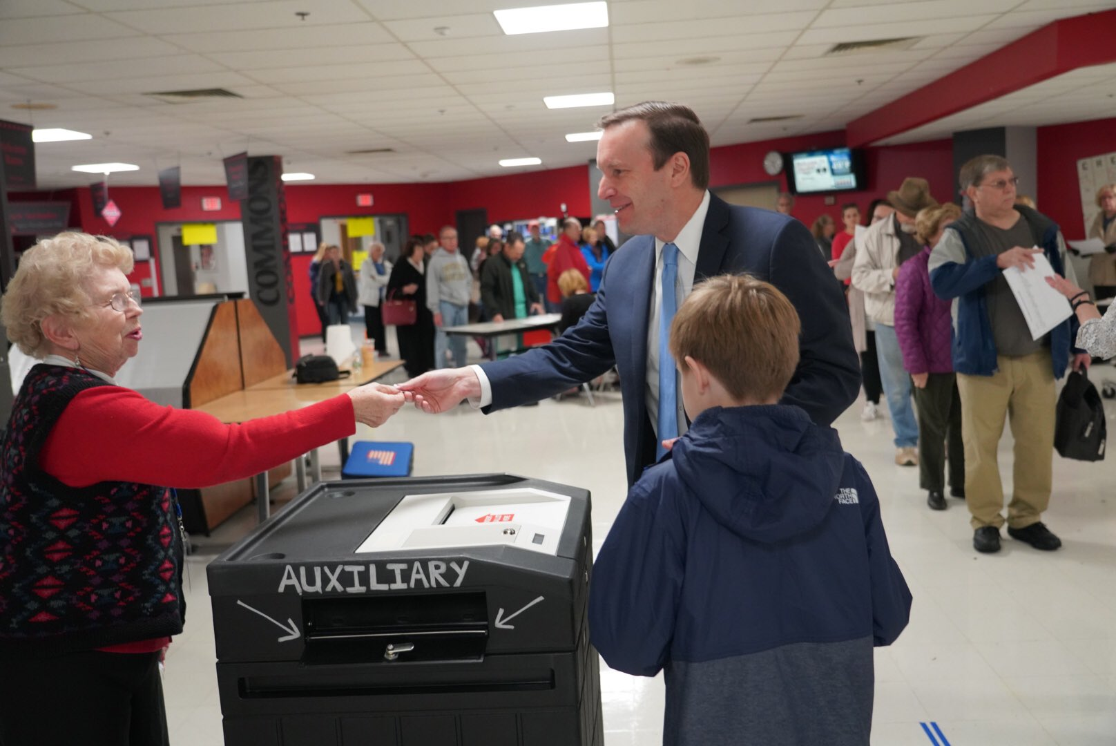 Cathy and I just voted (with an assist from the boys) at our polling place in Cheshire. Have you made a #plantovote yet? If you need help figuring it out go to No excuses!!